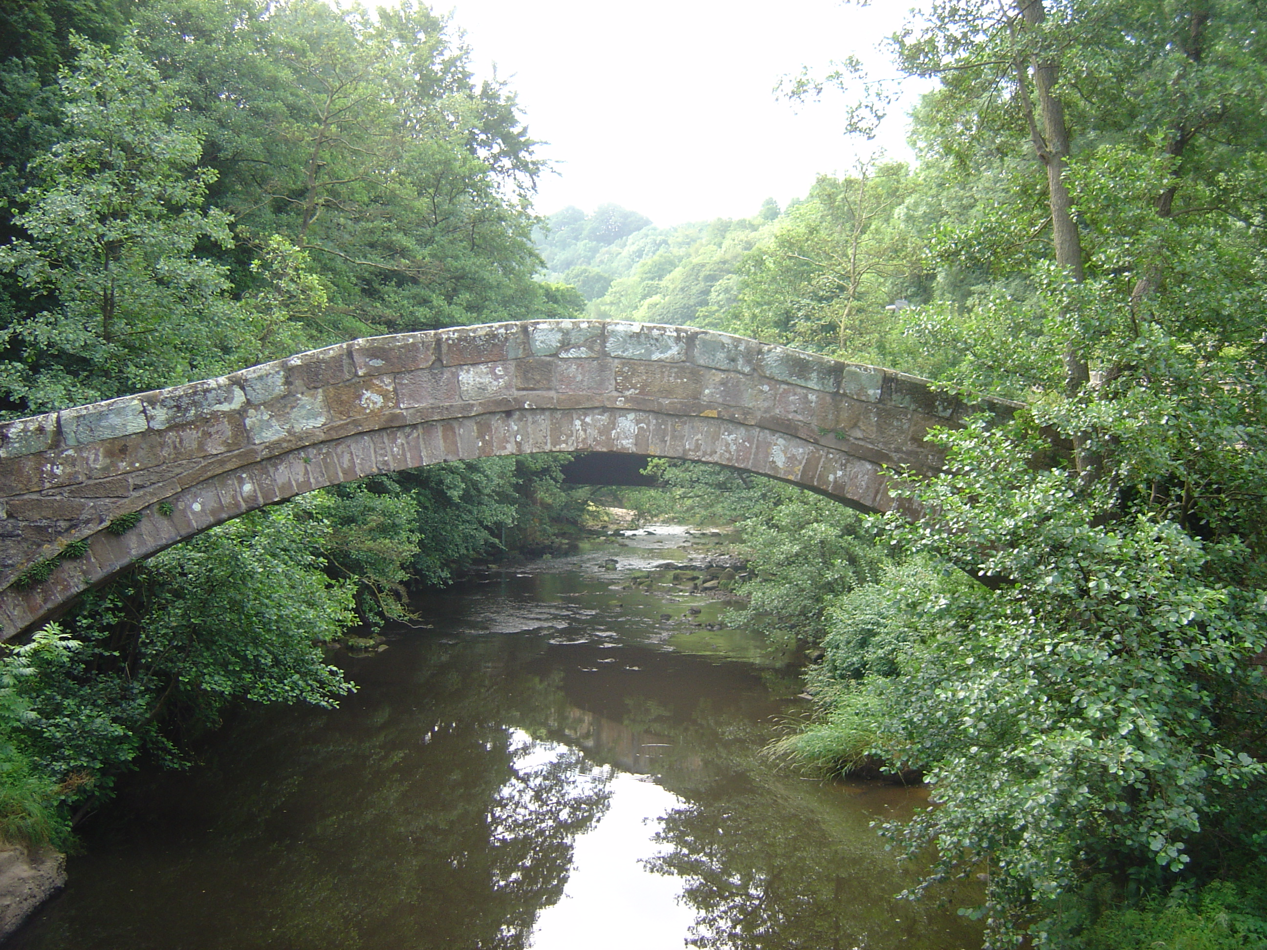 The famous Beggar's Bridge in Glaisdale North Yorkshire over the River Esk.